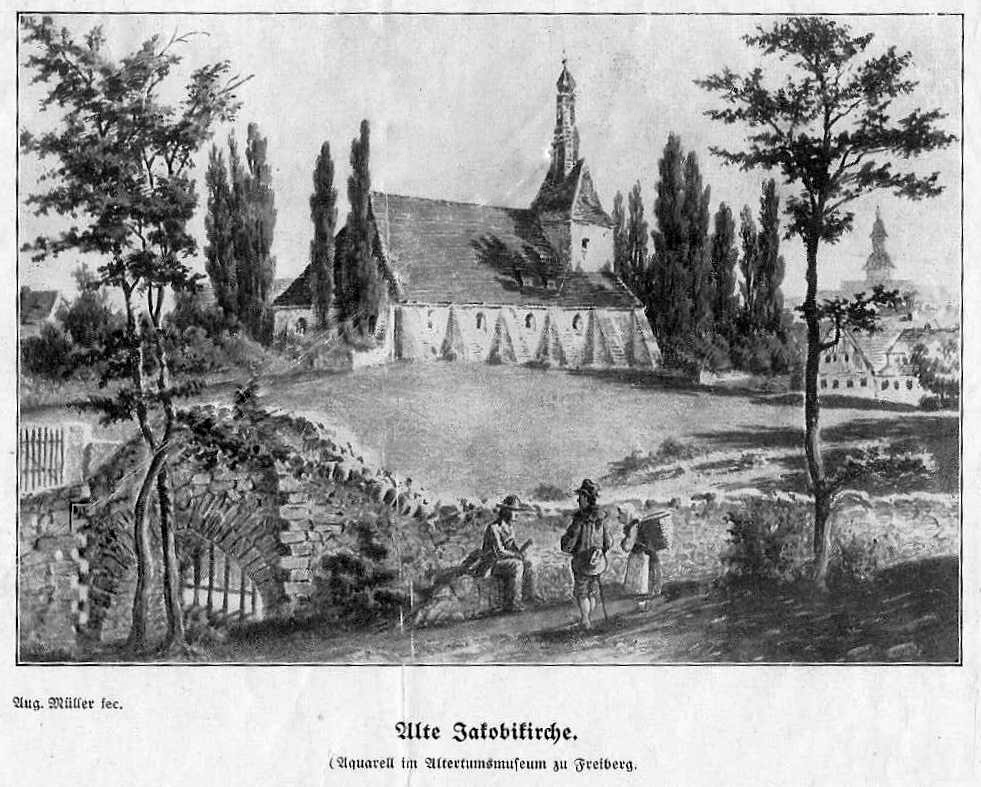 the old dismantled church St. Jakobi in Freiberg, Saxony, Germany